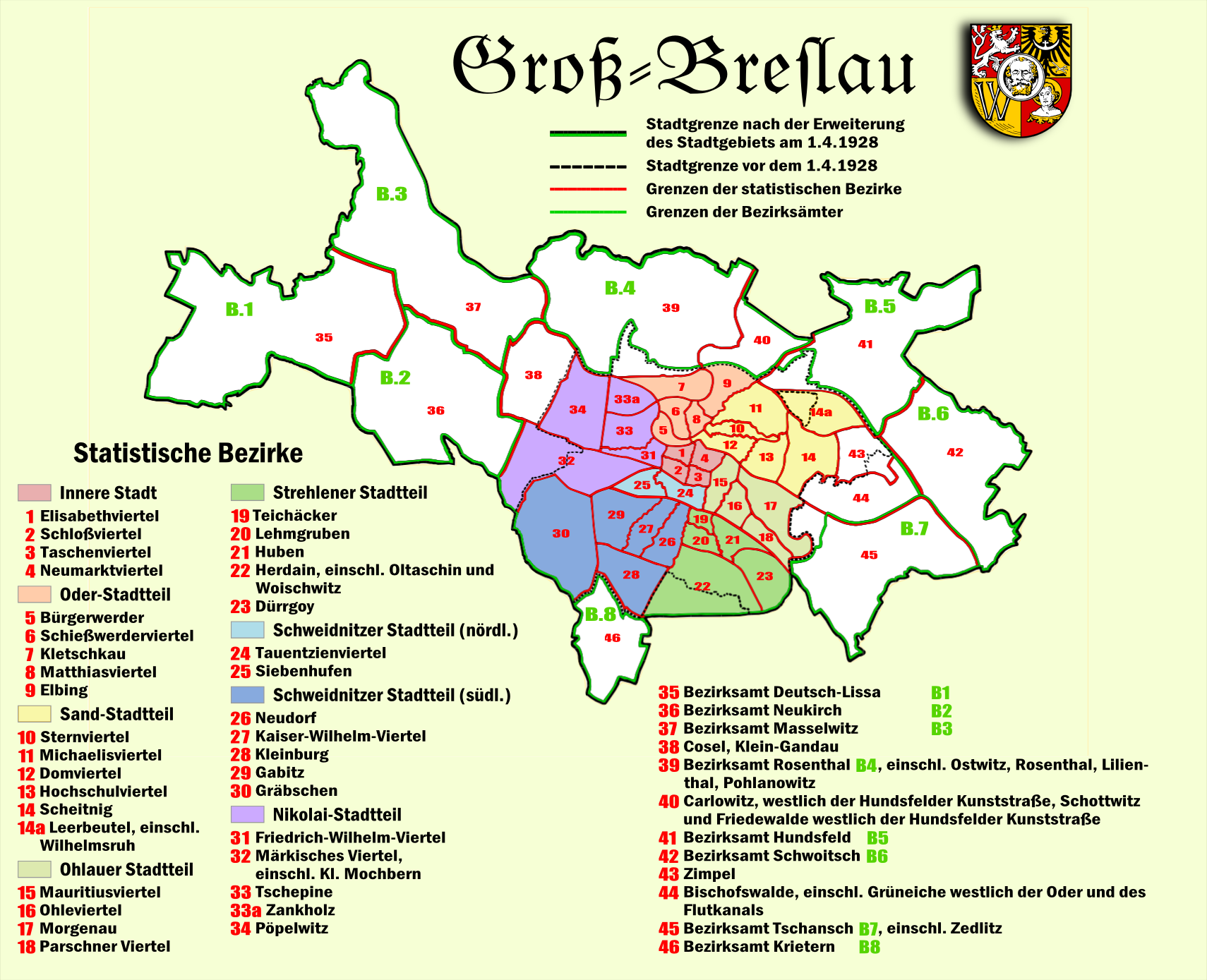 Map showing the new territories merged into Breslau in 1928